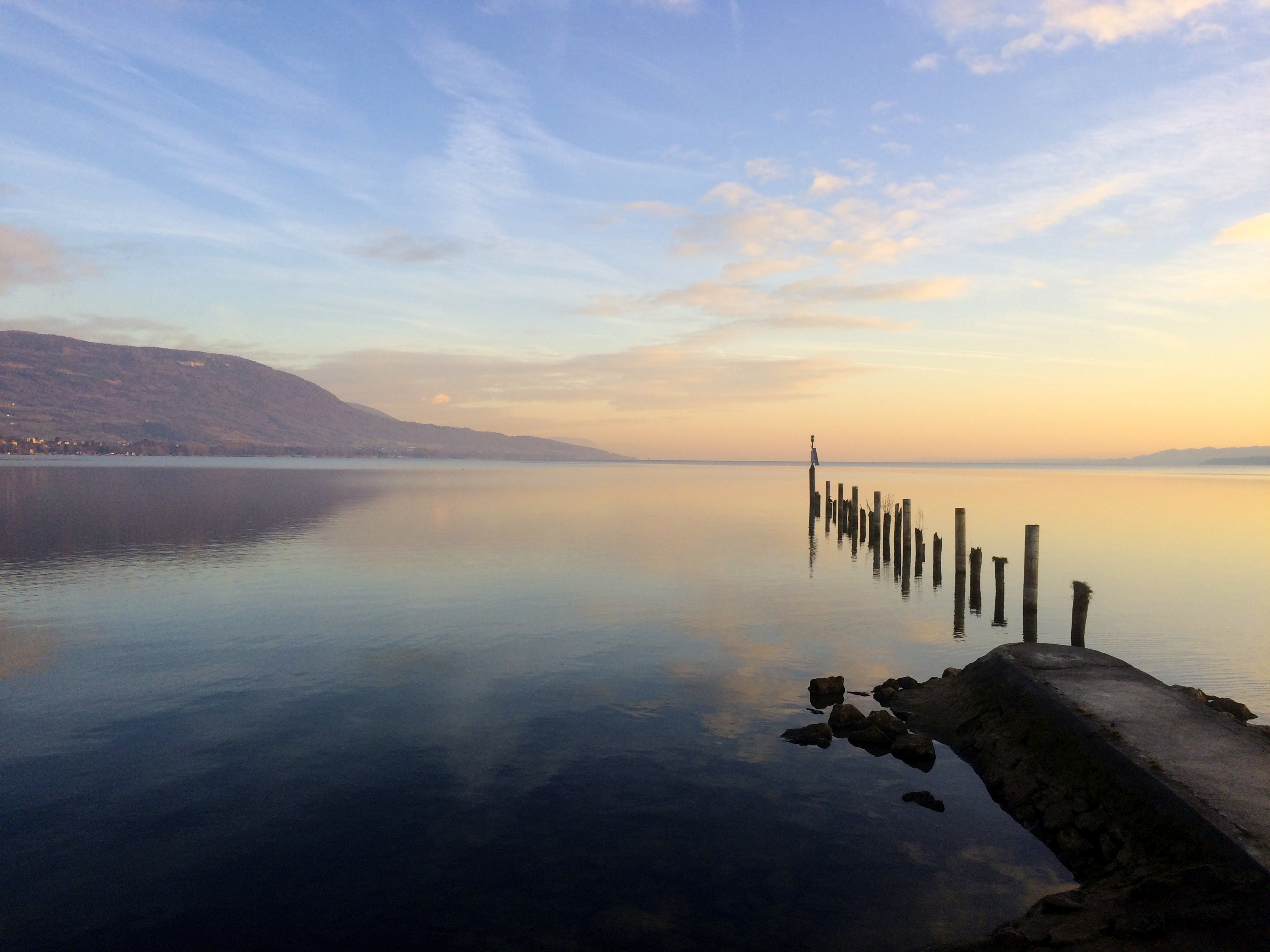 Lever de soleil sur le lac de Neuchâtel à Yverdon-les-Bains